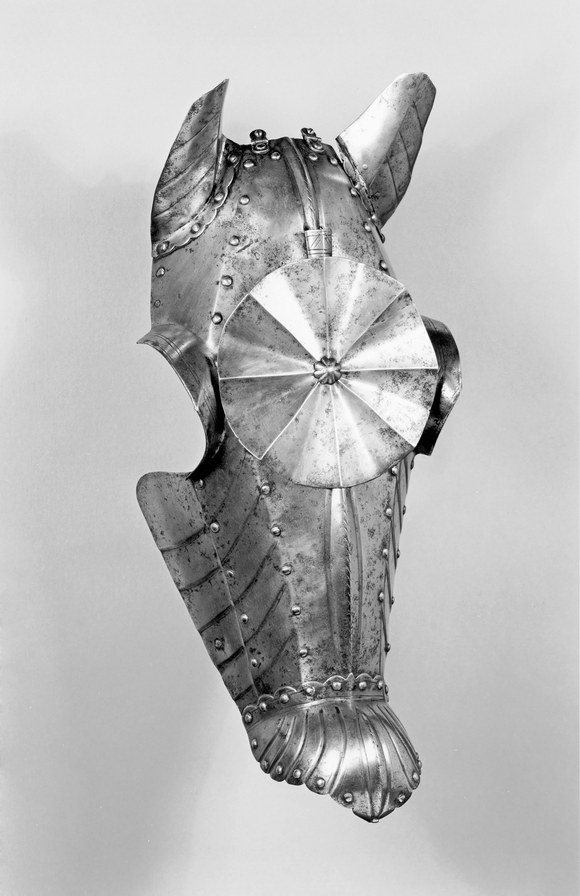 Horses also needed protection from the enemy's weapons. By the mid-1400s, armorers had devised a near-complete set of armor to protect the steed in battle. Together these formed a bard. The head was covered by a shaffron (from chanfrein, French for the part of a horse's head from the ears to the nostrils). Attached side plates covered the horse's cheeks. The neck was covered by a crinet, the sides by flanchards, and the hindquarters by a crupper. The peytral covered the front of the horse's chest and sides around to the saddle. The legs were left free for easy movement.